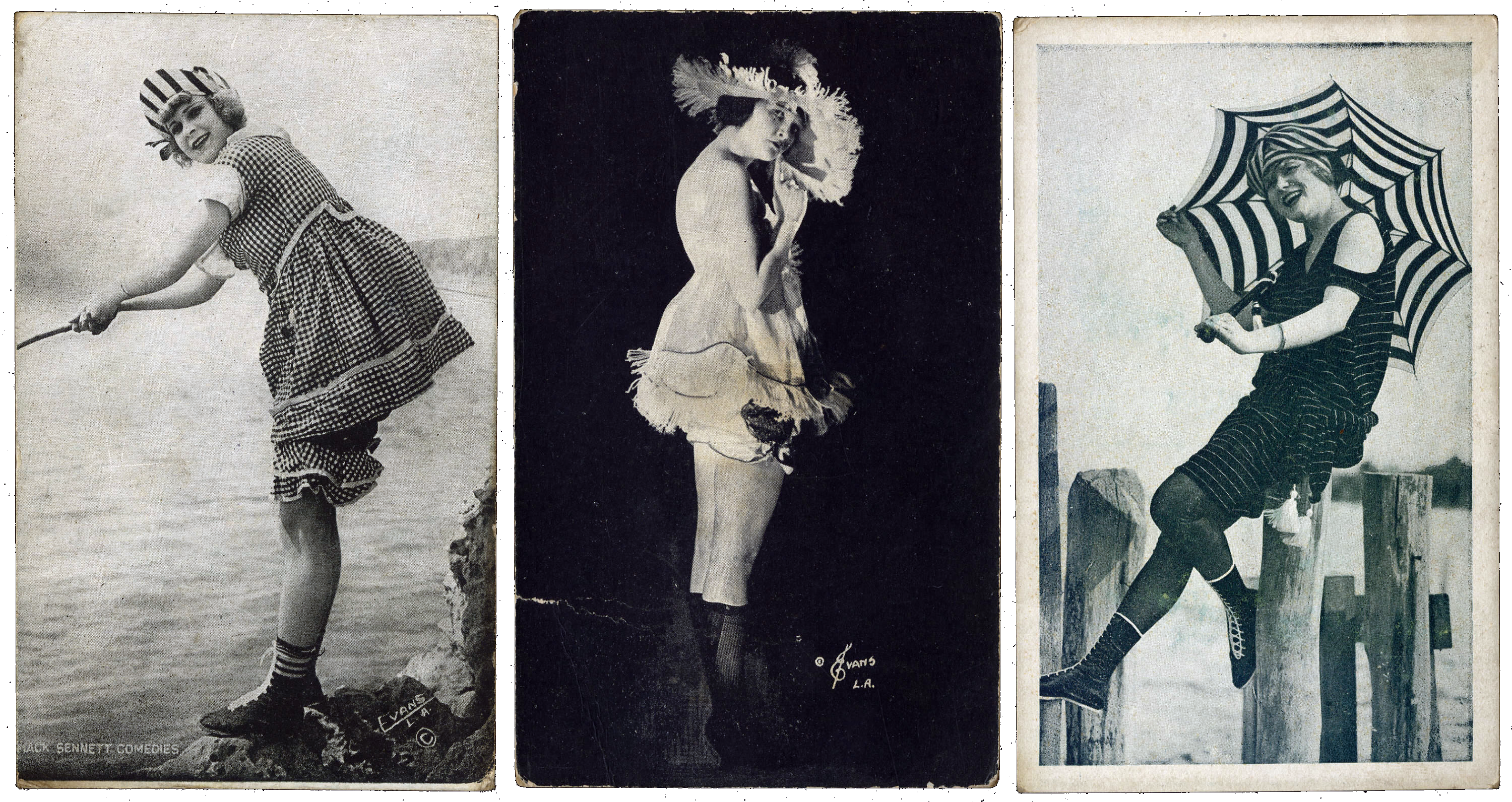 Lobby cards